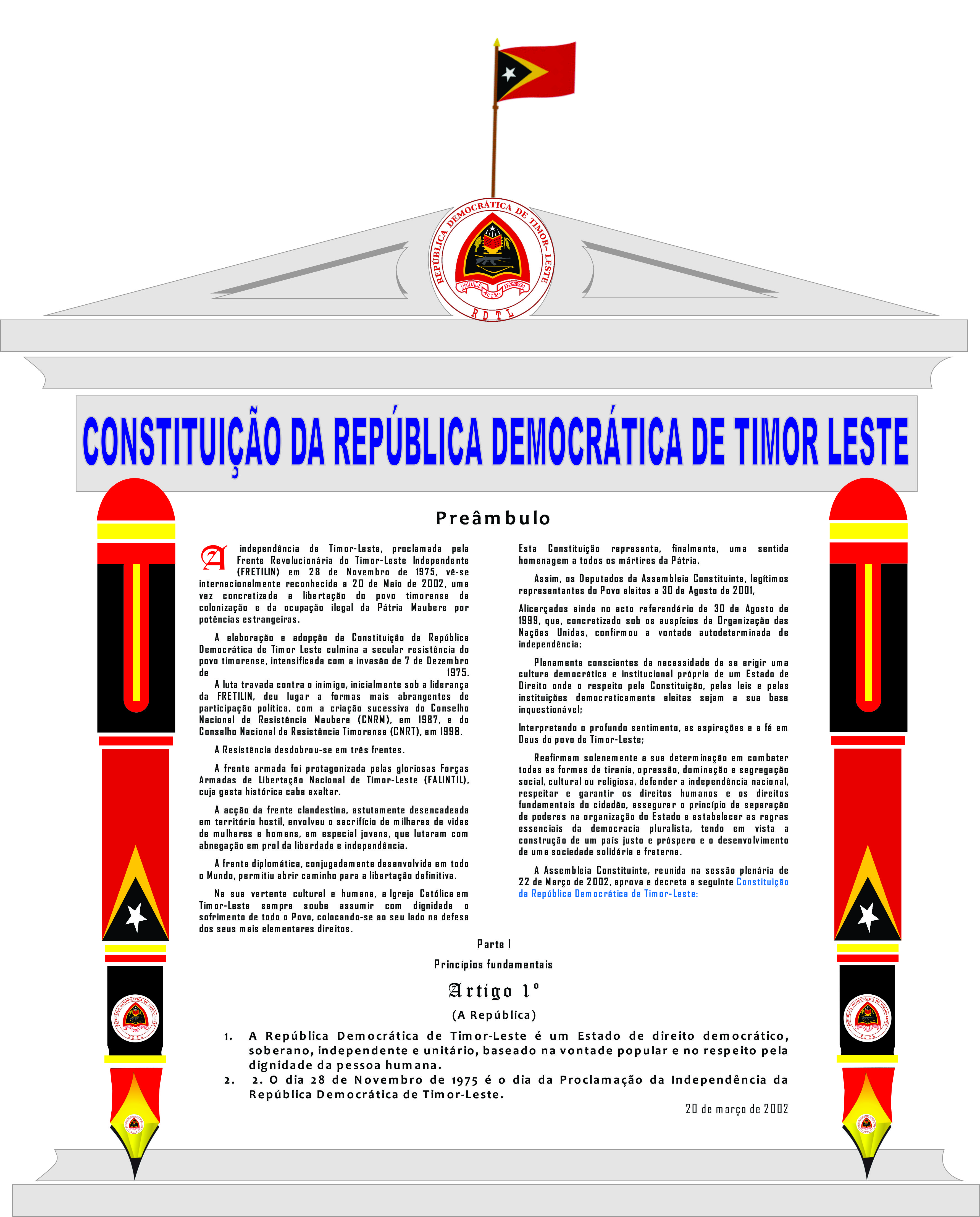 Constitution of East Timor (Preambule)